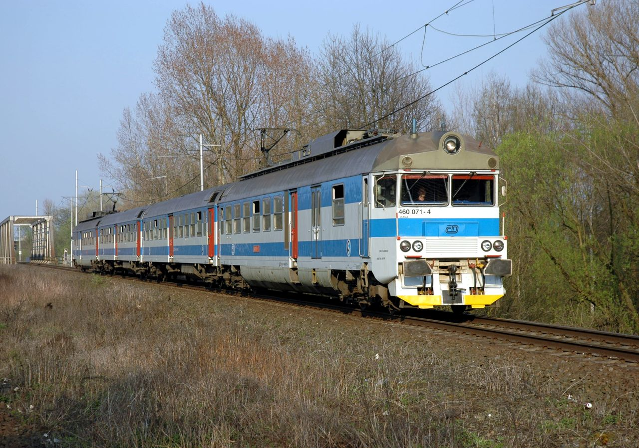 EMU 460.071+072 of České dráhy railway operator, betwee stations Ostrava hlavní nádraží and Ostrava-Svinov, Czech Republic